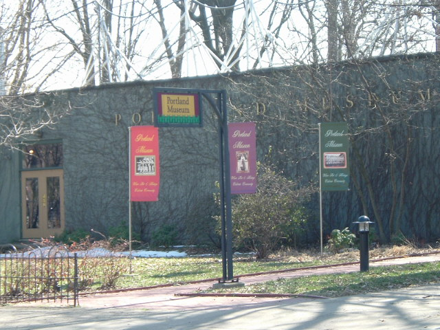 Portland Museum LOUKY